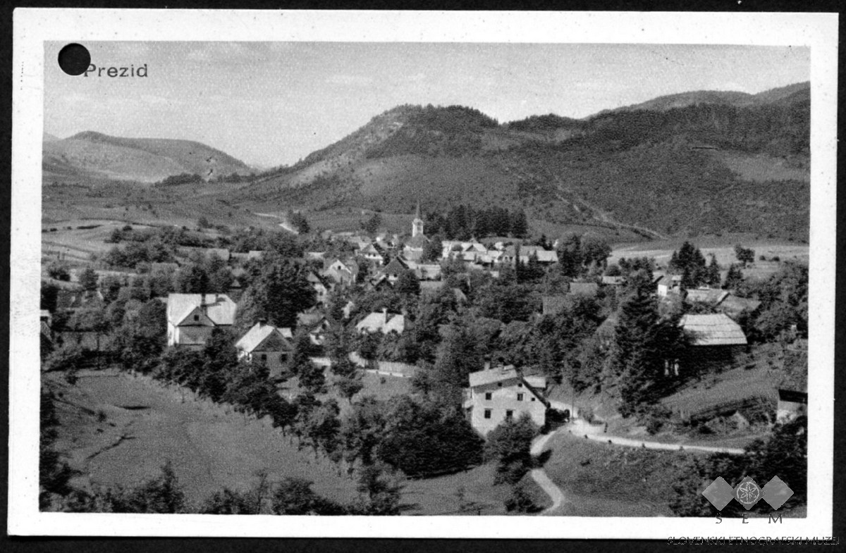 Postcard of Prezid, Croatia